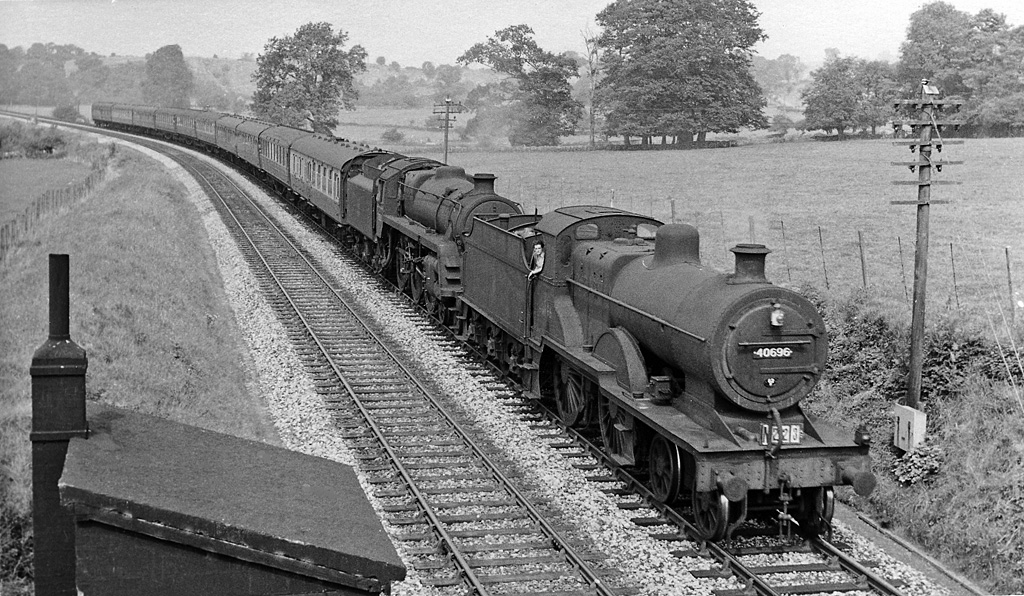 Down S&D express near Shepton Mallet. View NW, towards Bath; Somerset & Dorset Bath - Templecombe - Bournemouth line. The 09.08 Birmingham (New St.) to Bournemouth West express, double-headed like all the rest on a Summer Saturday, is descending the eight miles of mainly 1-in-50 from Masbury Summit to Evercreech Junction and approaching the viaduct just north of Shepton Mallet station. The locomotives are: LMS 2P 4-4-0 No. 696 piloting BR Standard 5MT 4-6-0 No. 73050.